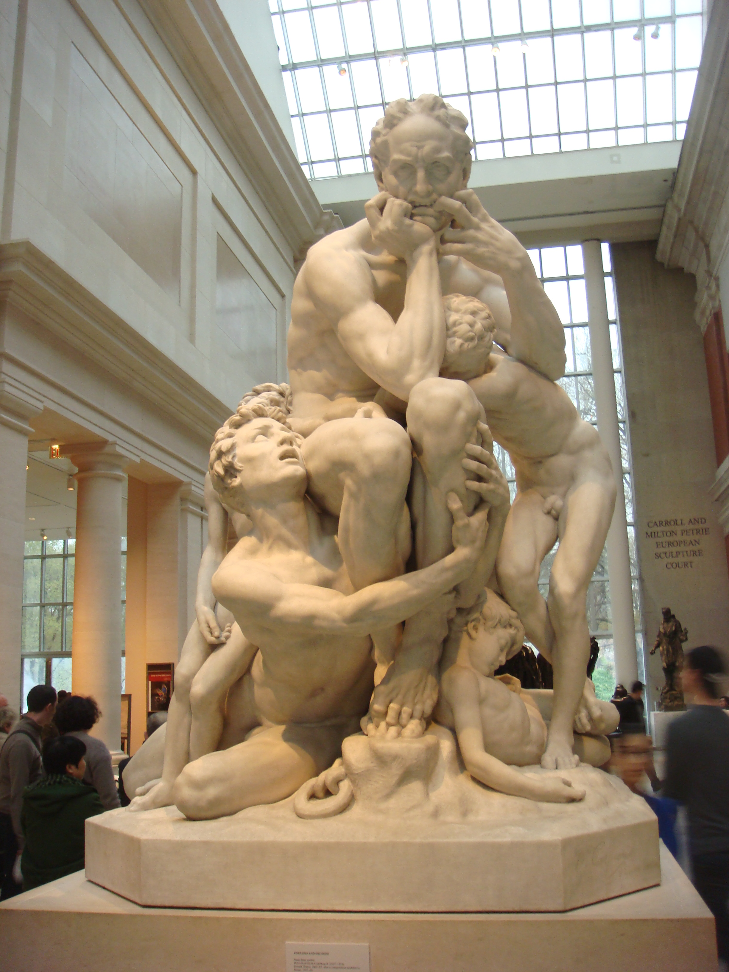 Ugolino and His Sons Jean-Baptiste Carpeaux Metropolitan Museum of Art New york